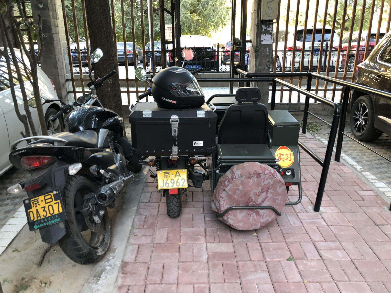 two motor cycles in Beijing, one of which is a sidecar